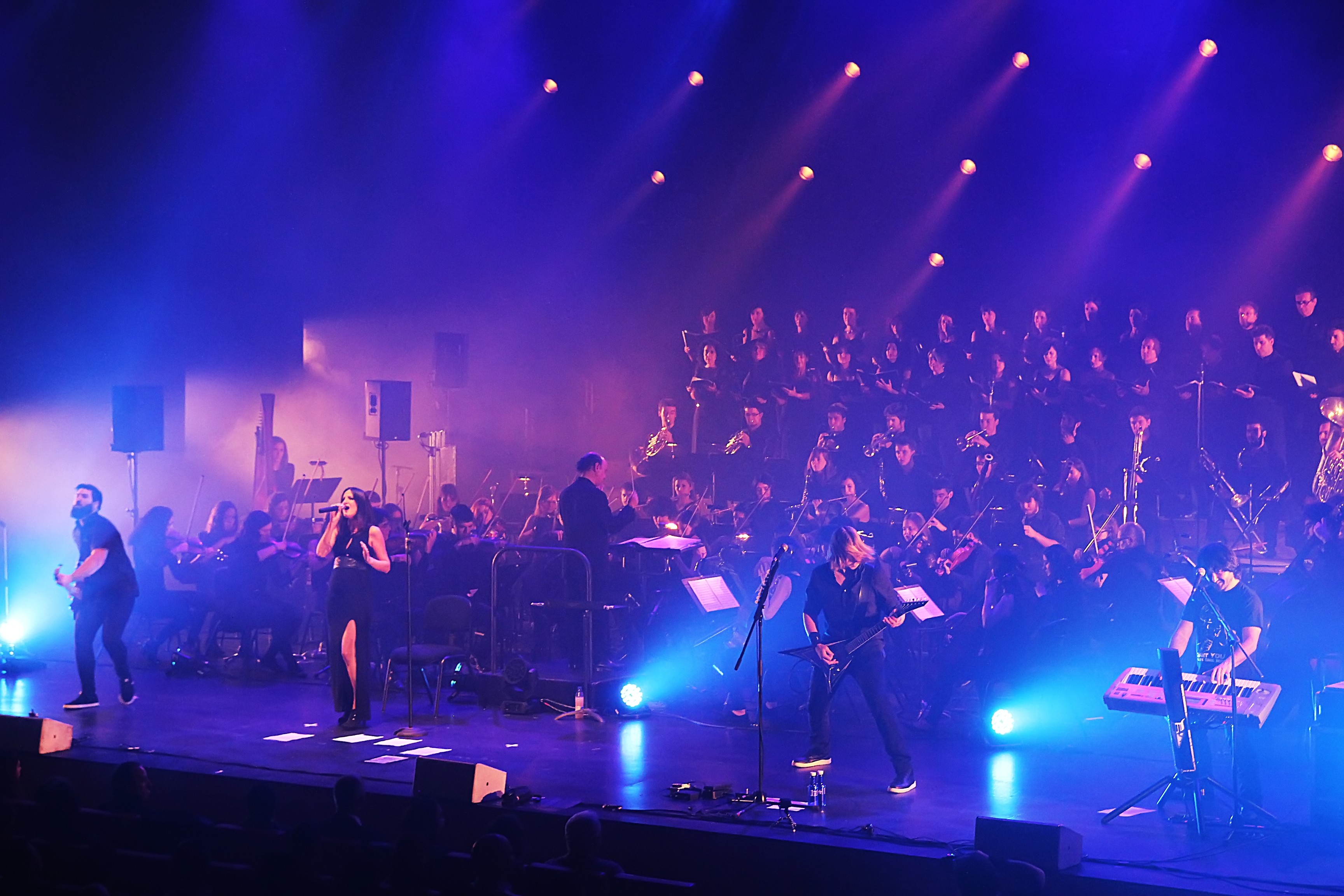 Diabulus in Musica - Live at Baluarte (Pamplona)